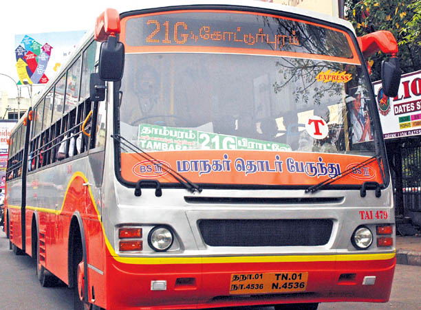 A new vestibule Chennai city bus with LCD display showing the stop names.